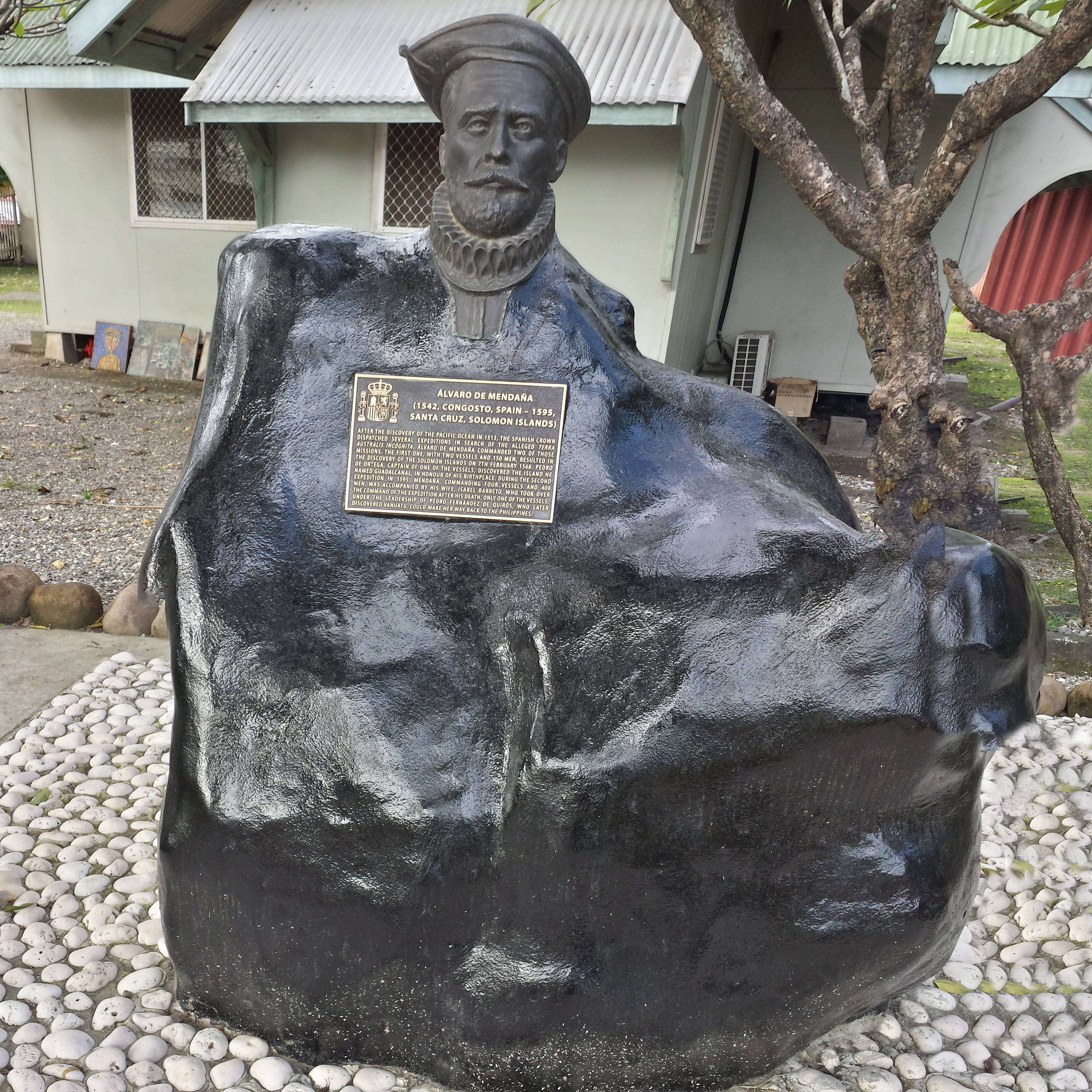 Bust of Spanish explorer Mendana